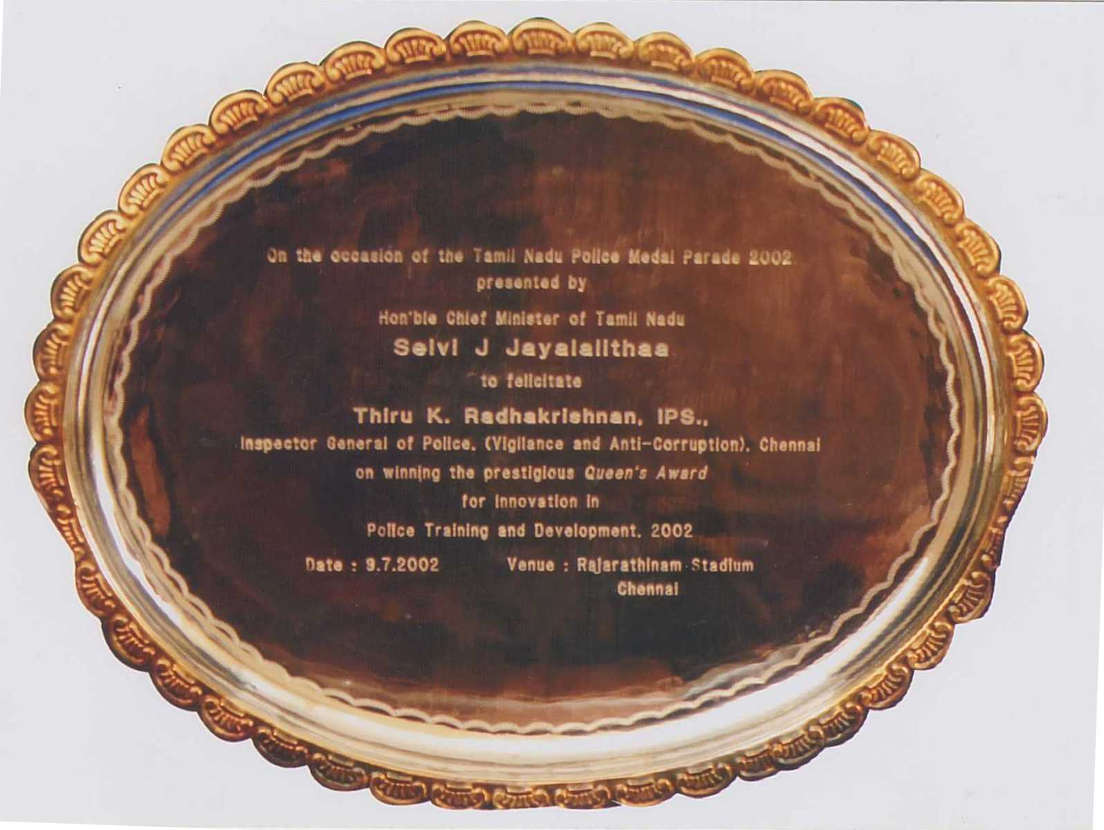 Plaque Awarded by Chief Minister